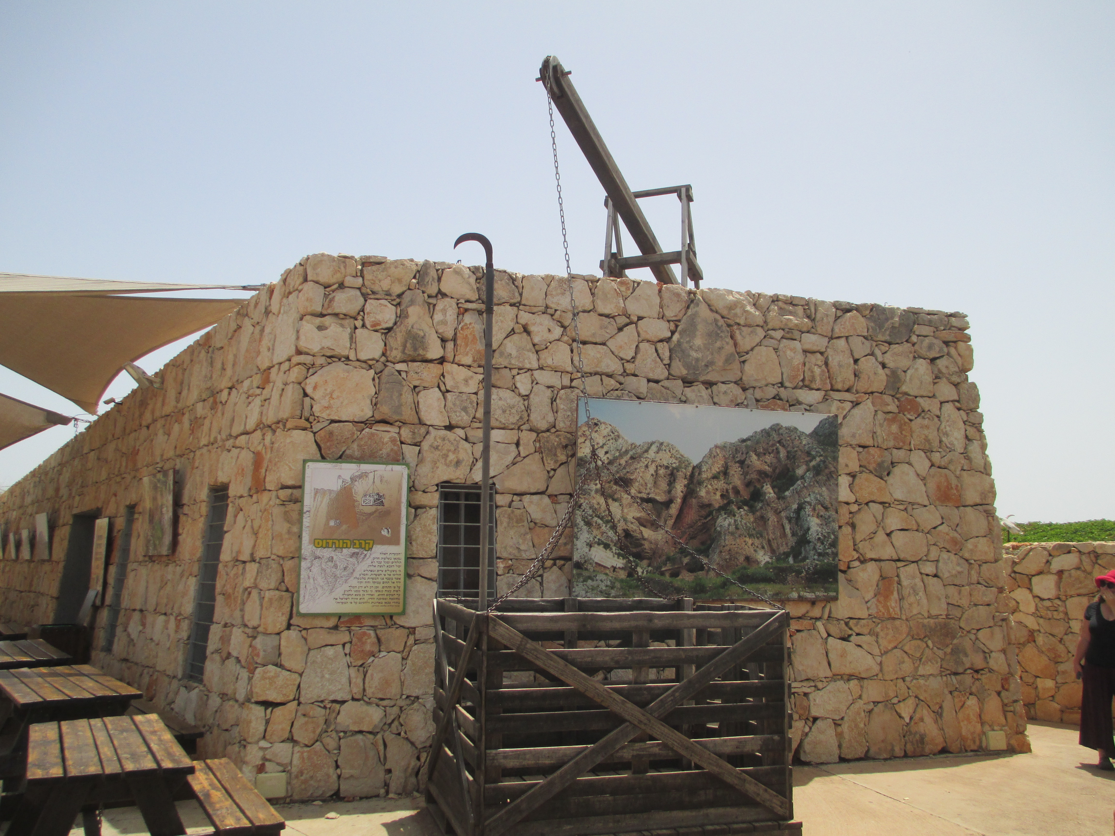 Herod's battle in Mount Arbel